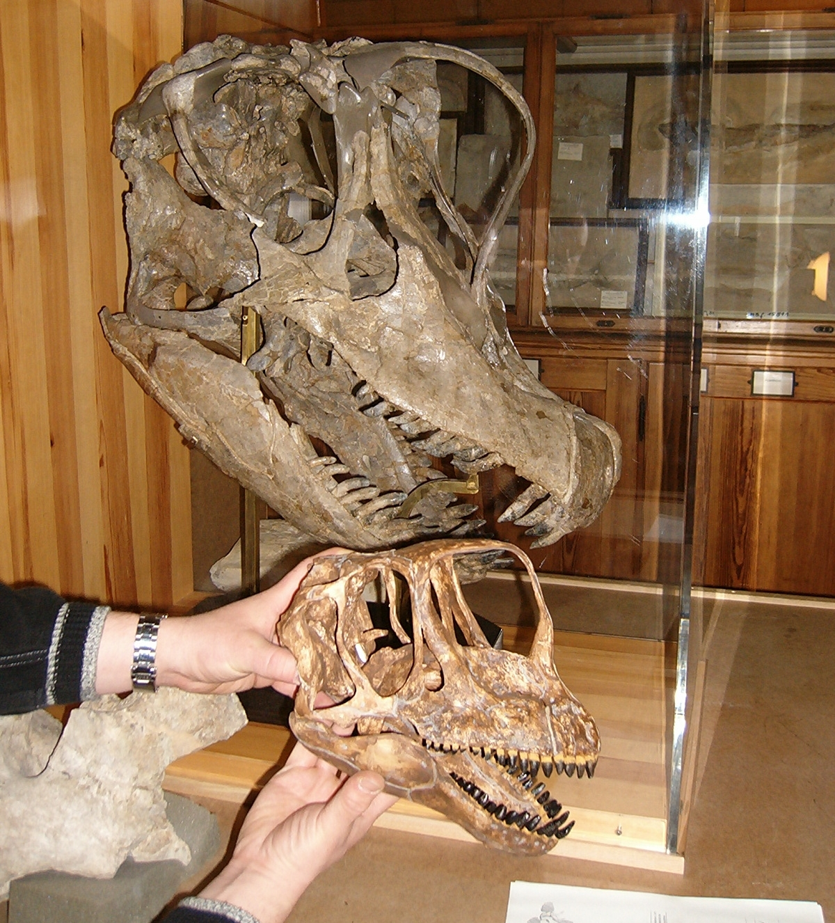 Skull of Europasaurus holgeri in comparison with a skull of Giraffatitan.